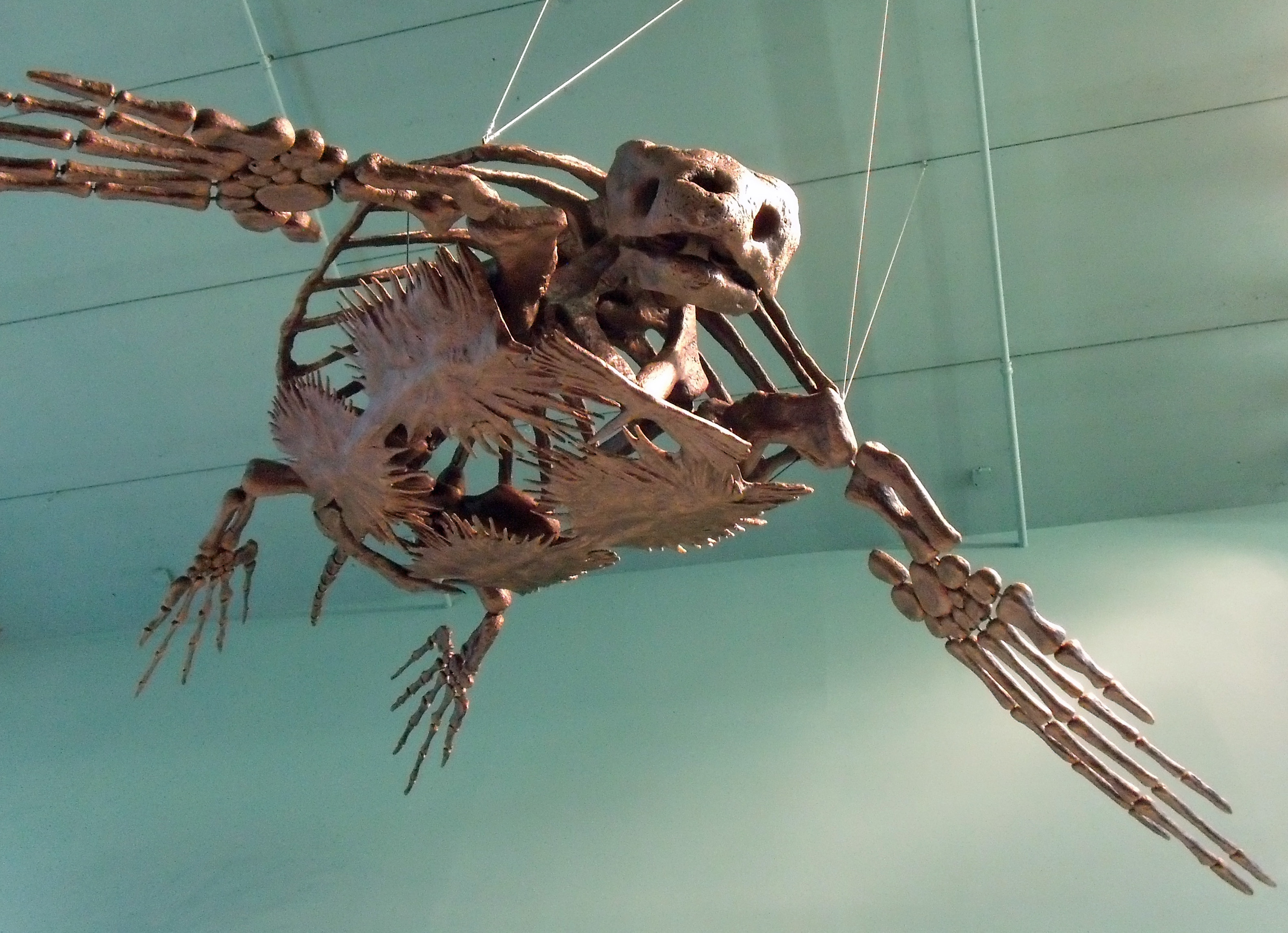 The following is the author's description of the photograph quoted directly from the photograph's Flickr page."Said to be the world's largest species of turtle, weighing in at two tonnes. Replica of a 75 million year old "Archelon ischyros" from South Dakota, now hanging out in the Wallace Building on the University of Manitoba campus, Winnipeg, Manitoba Canada. This car-sized bony flippered creature ought to be cast as a roleplayer in a superhero movie... "